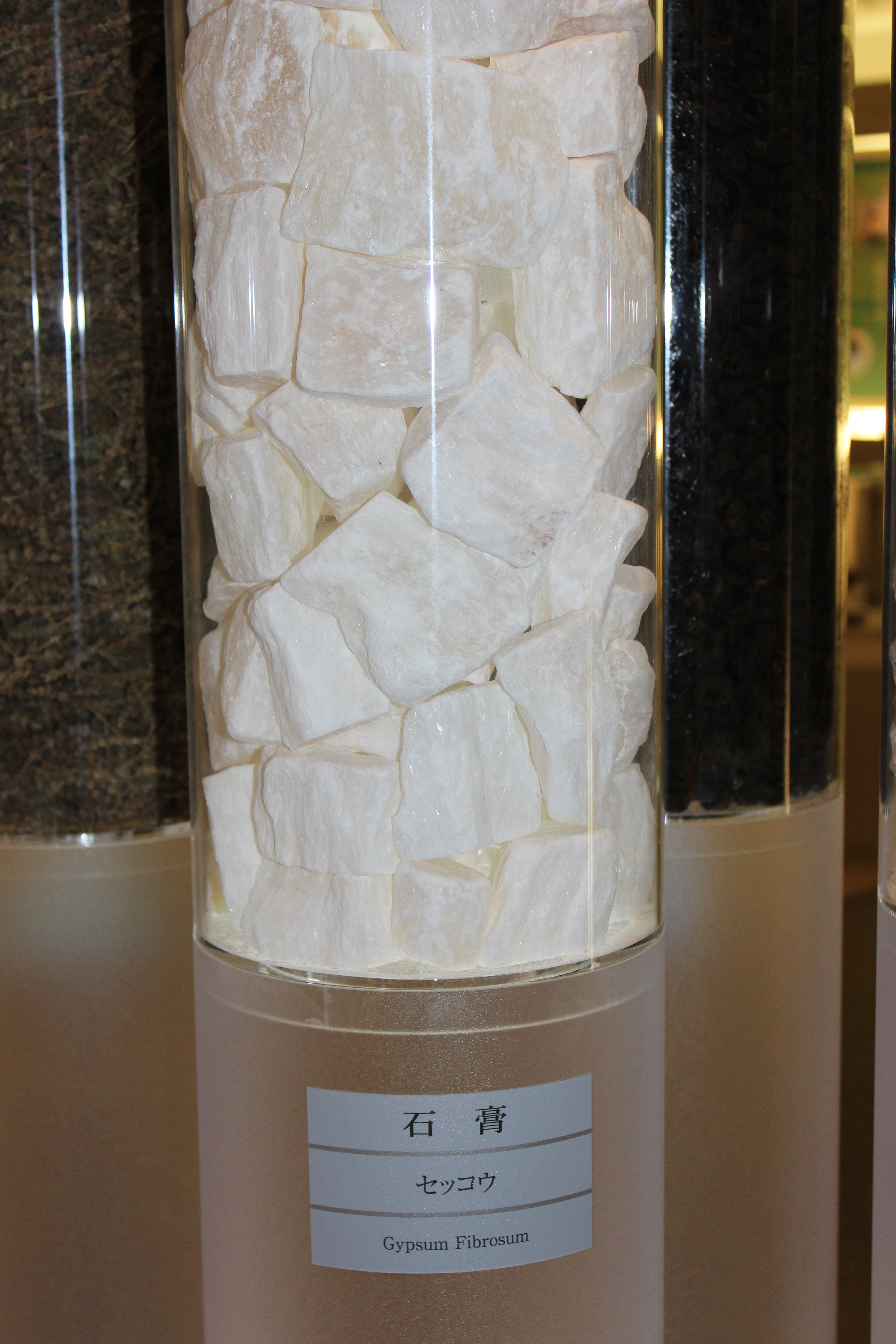 Gypsum used with a herbal medicine